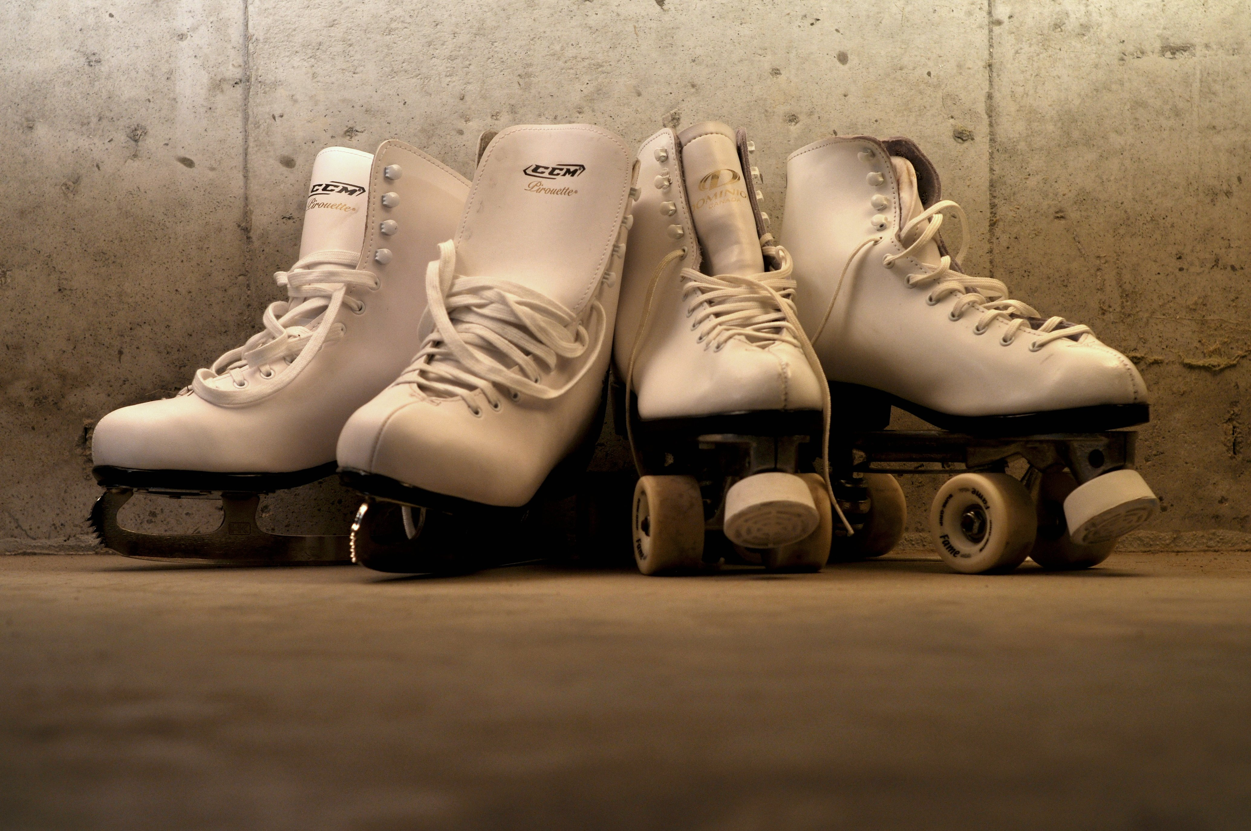 Skates for summertime, skates for wintertime.